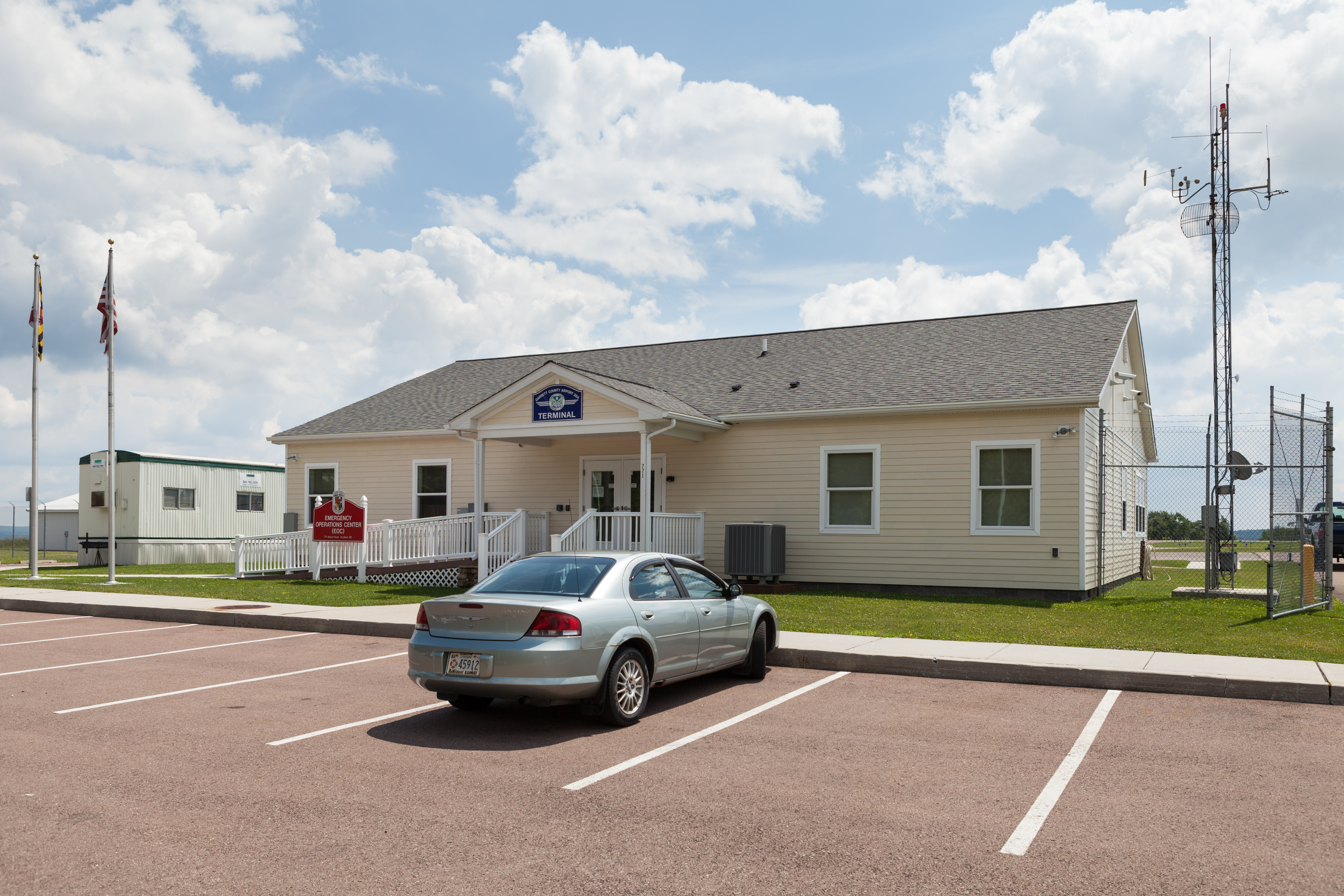 The terminal building at the Garrett County Airport(2G4) in Garrett County, Maryland. The Emergency Operations Center for Garrett County is also located here.